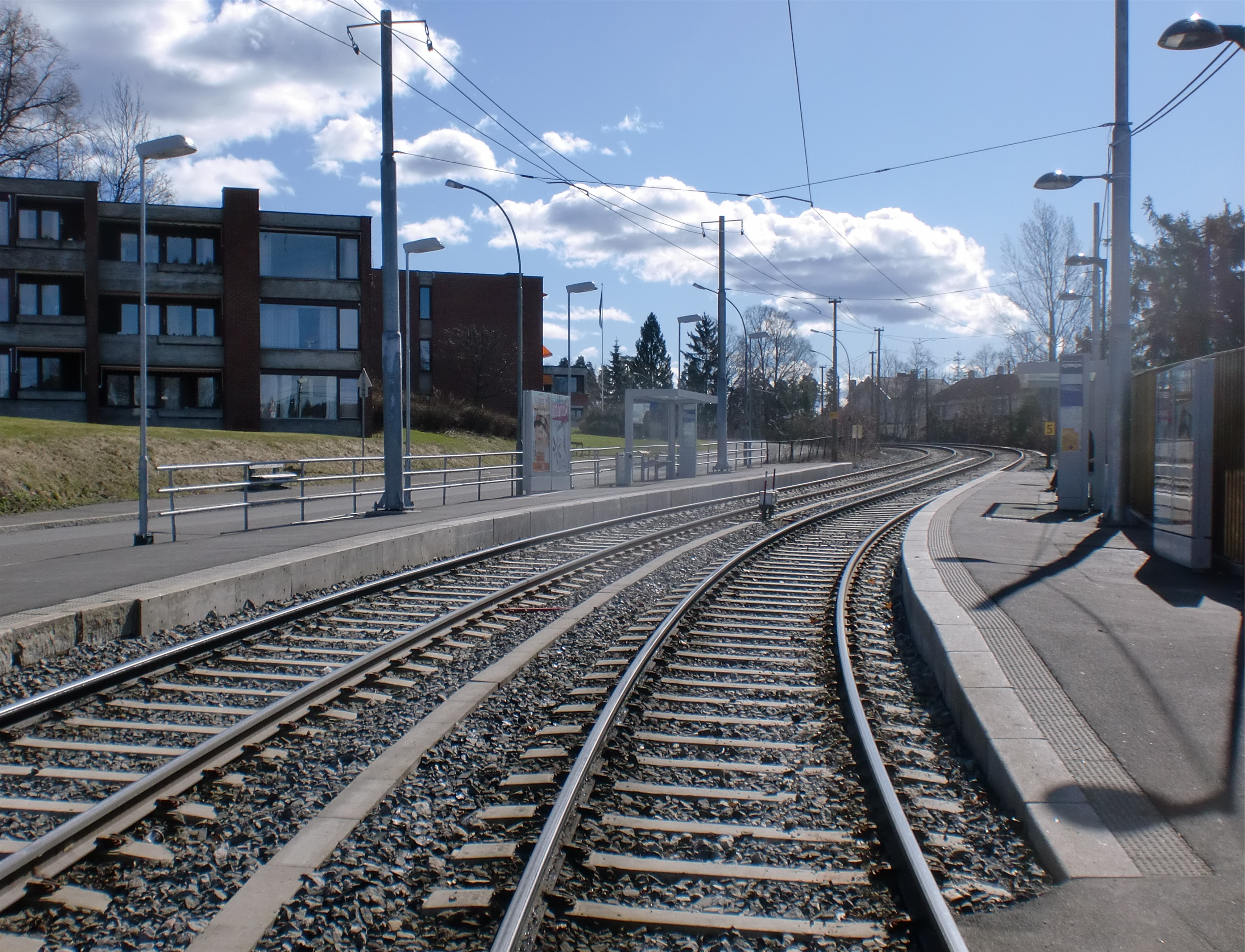 Tramway station Sollerud in Bydel Ullern, Oslo, Norway.